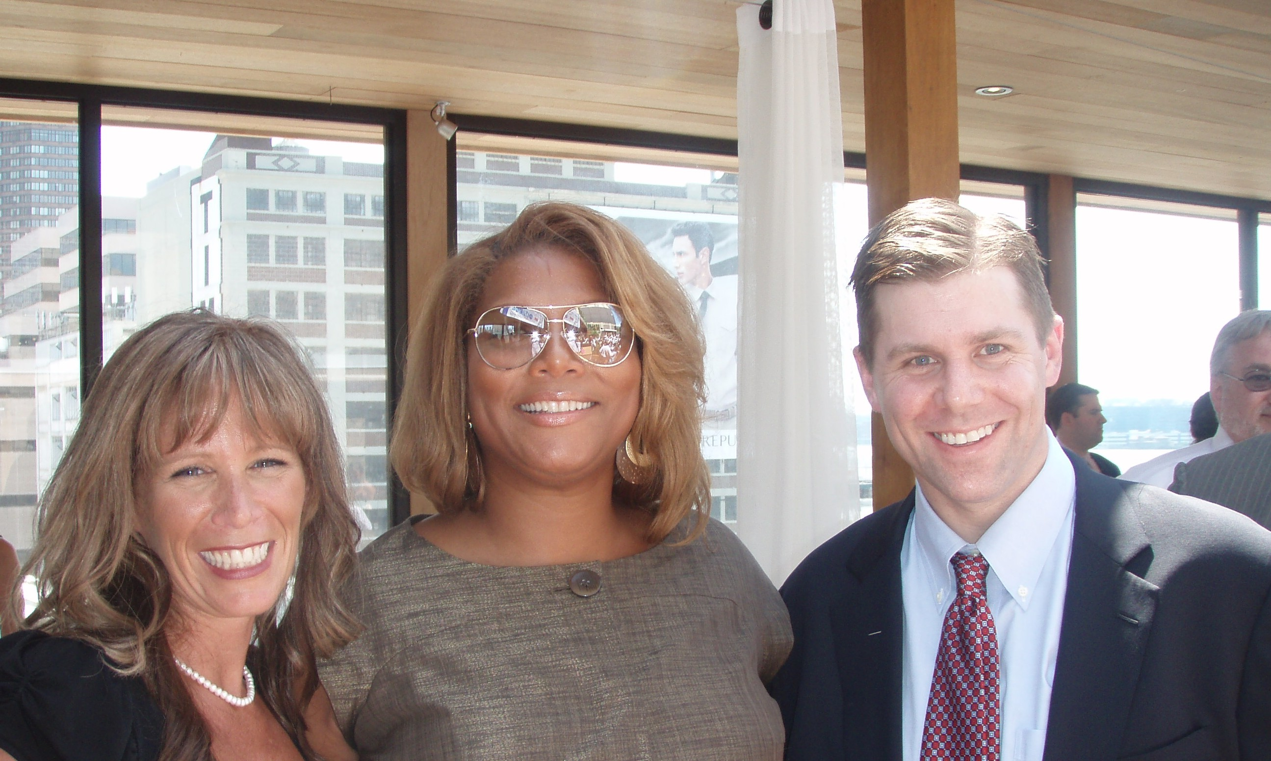 Missy Ward, Queen Latifah and Shawn Collins at the LEAGUE 2008 National Awards and Recognition Luncheon.